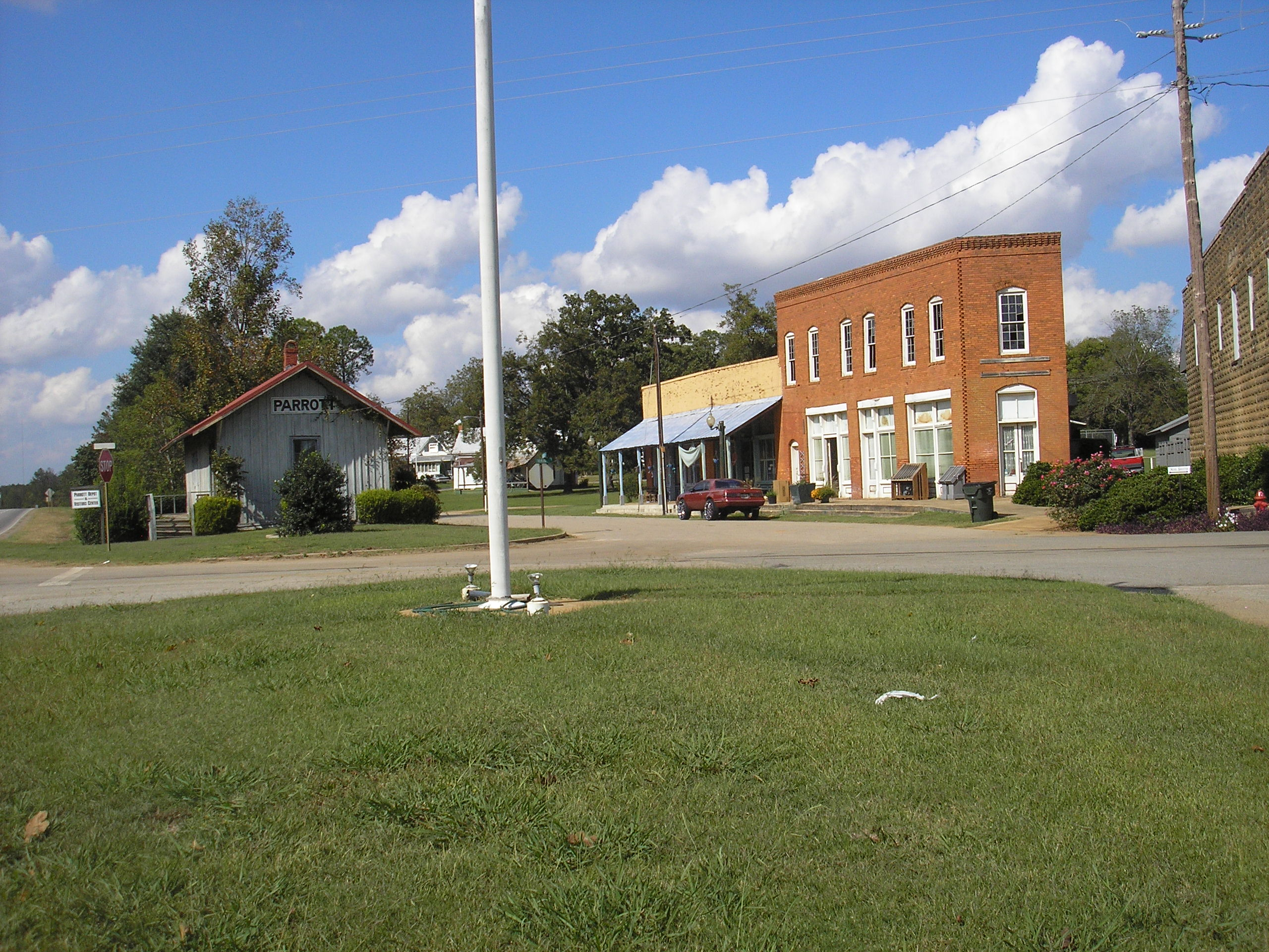 A National Registered Historic Site located in Parrott, Terrell County, GA and roughly centered on the Junction of Main Street and GA 55/520. This view is of the Parrott Depot and some downtown buildings.